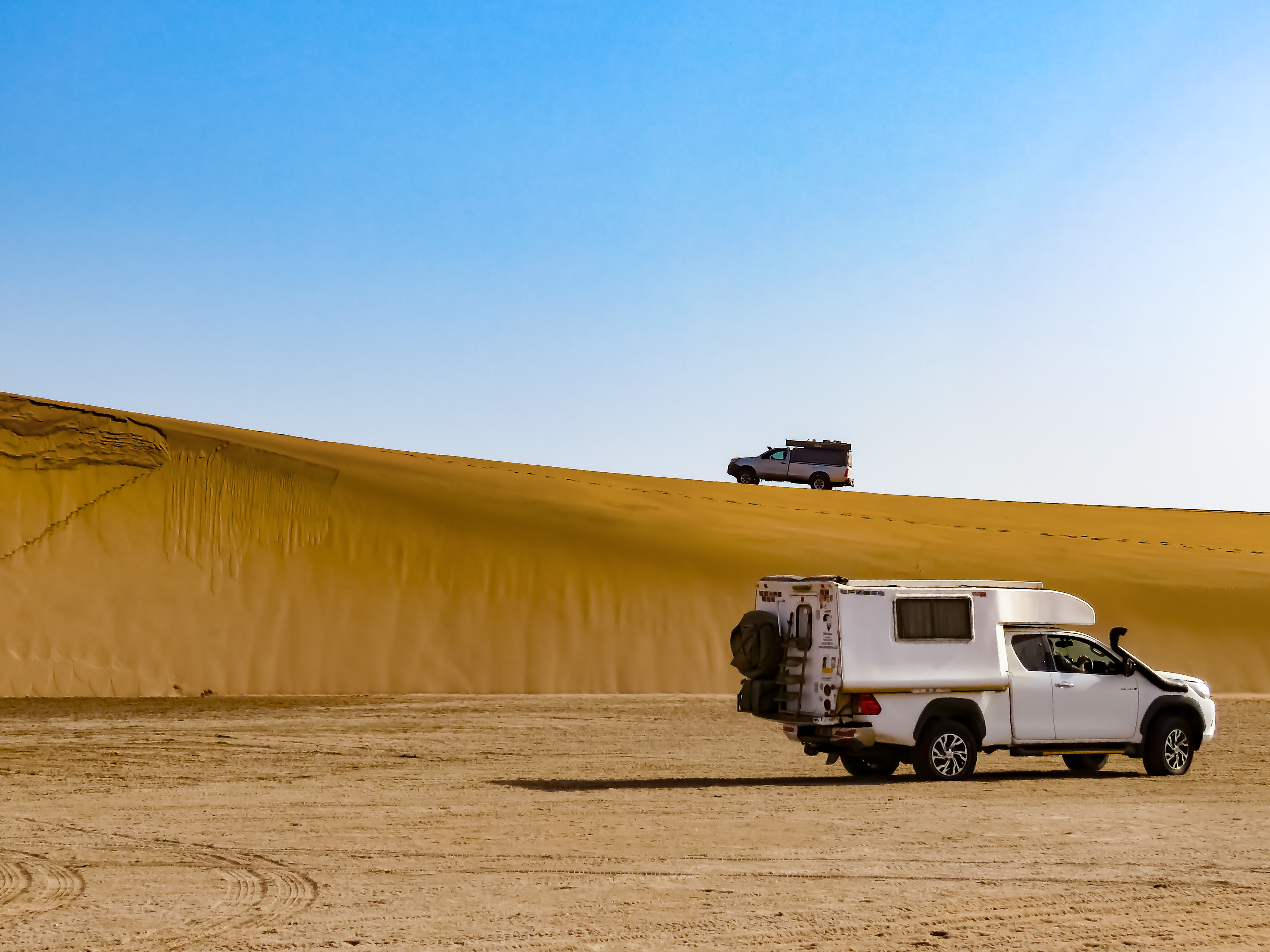 Bakkies the national park in Angola This is an image with the theme "Africa on the Move or Transport" from: Angola